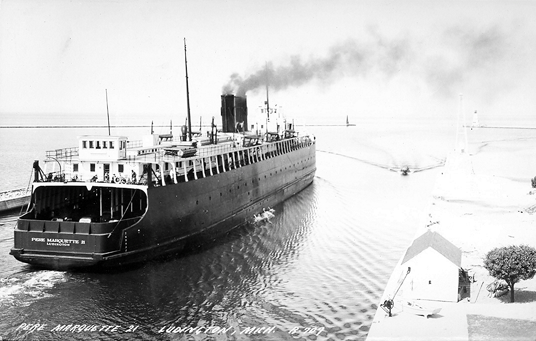 SS Pere Marquette 21 carferry leaving Ludington,Michigan